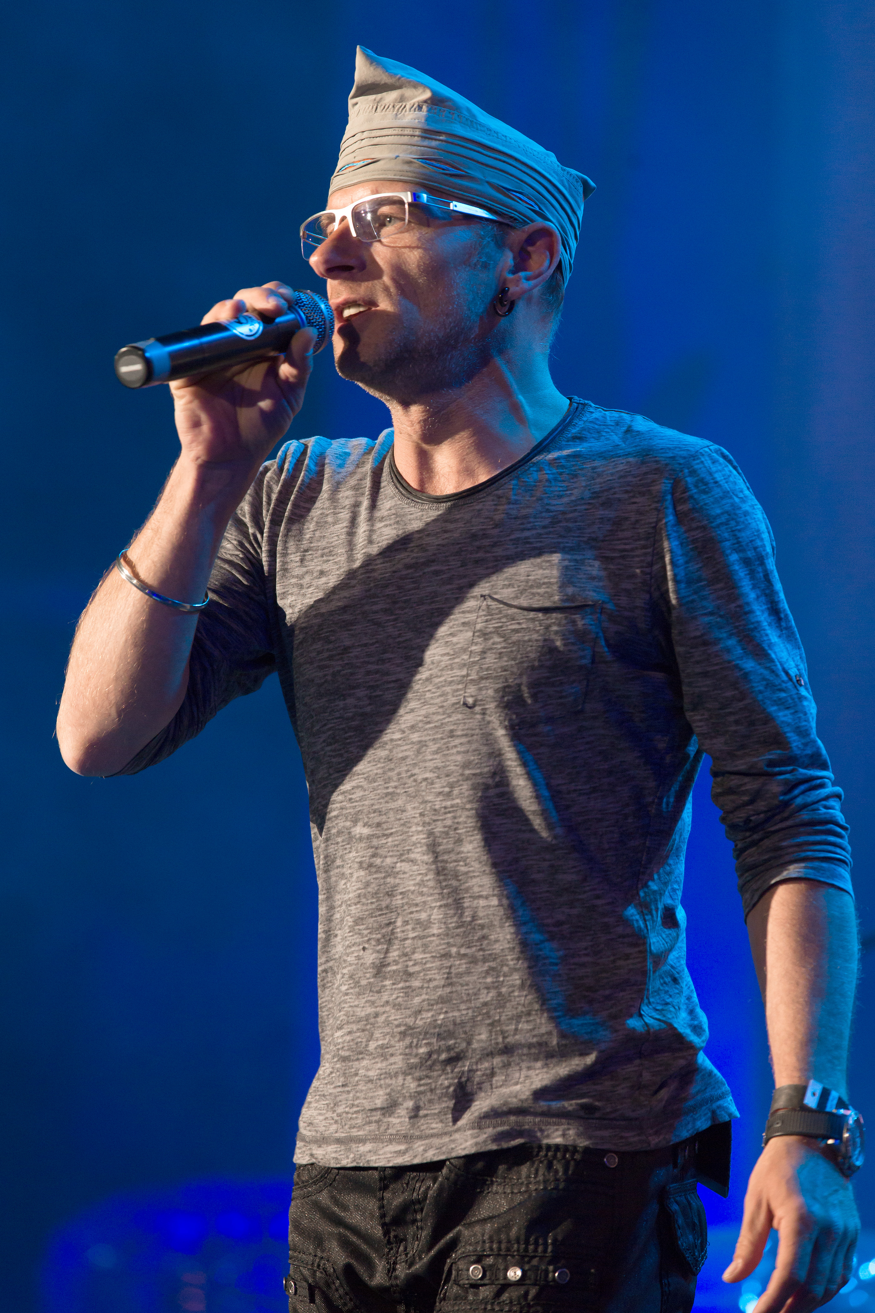 Thomas Forstner, participant of the Eurovision Song Contest 1989 and the Eurovision Song Contest 1991, with The Bad Powells, concert at Eurovision Village on Rathausplatz, a public event location of the Eurovision Song Contest 2015 in Vienna, Austria.